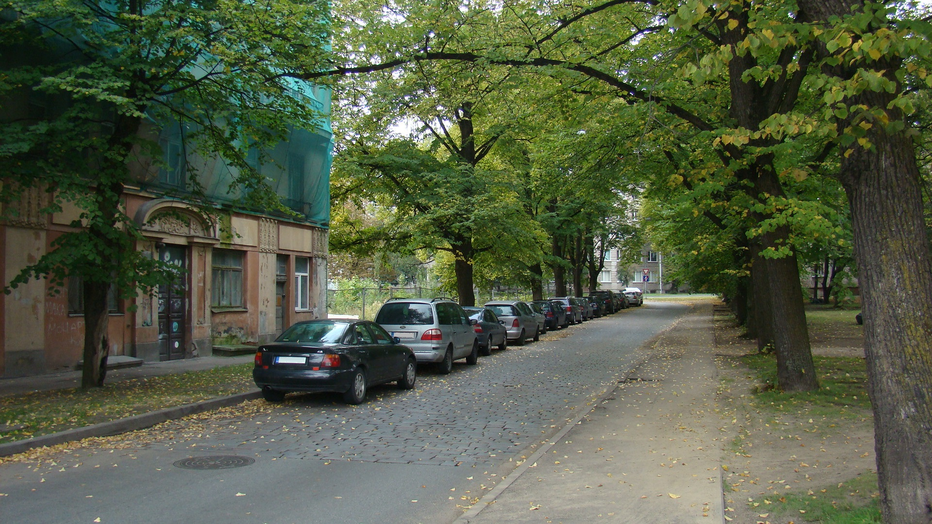 Behind my back - Daugavgrīvas iela in Riga, Latvia. The picture shows the start of a long street in Riga - Kalnciema iela.